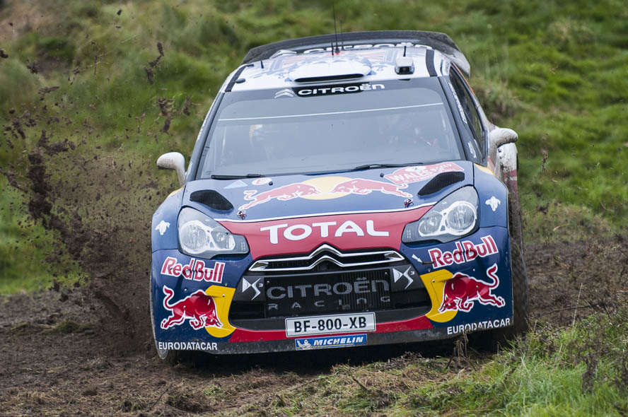 Wales Rally GB 2011 Citroen DS3 WRC,Citroen Total WRT,Julien Ingrassia,Motorsport,Rallye,Sebastien Ogier,Wales Rally GB